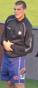 Nikolić training before Poli Timisoara - Steaua Bucuresti (0-0)